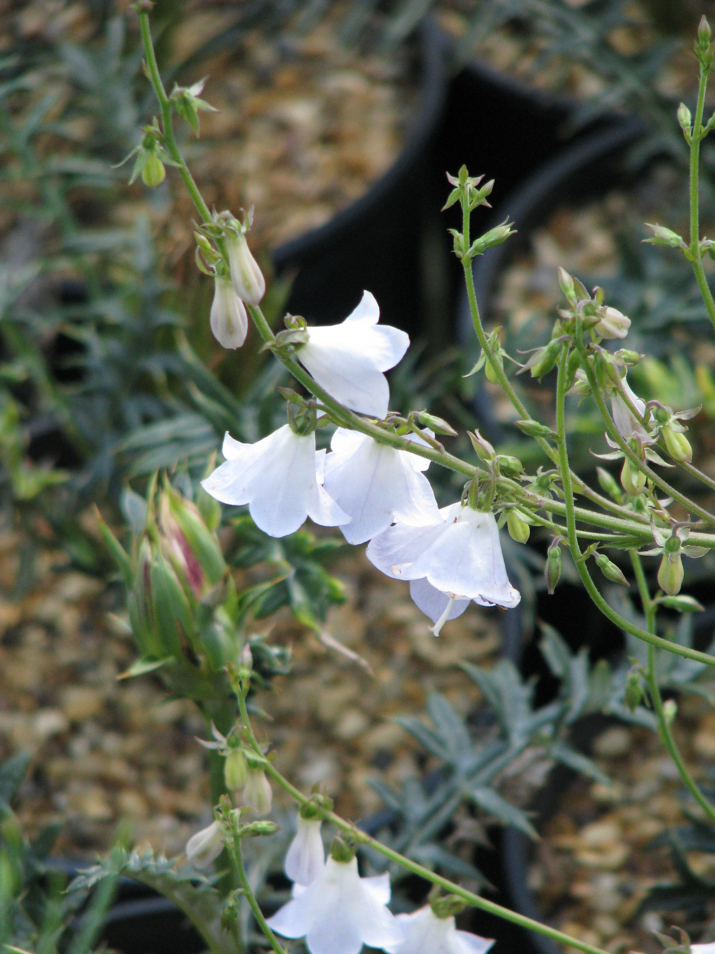 Adenophora cf lilifolia white